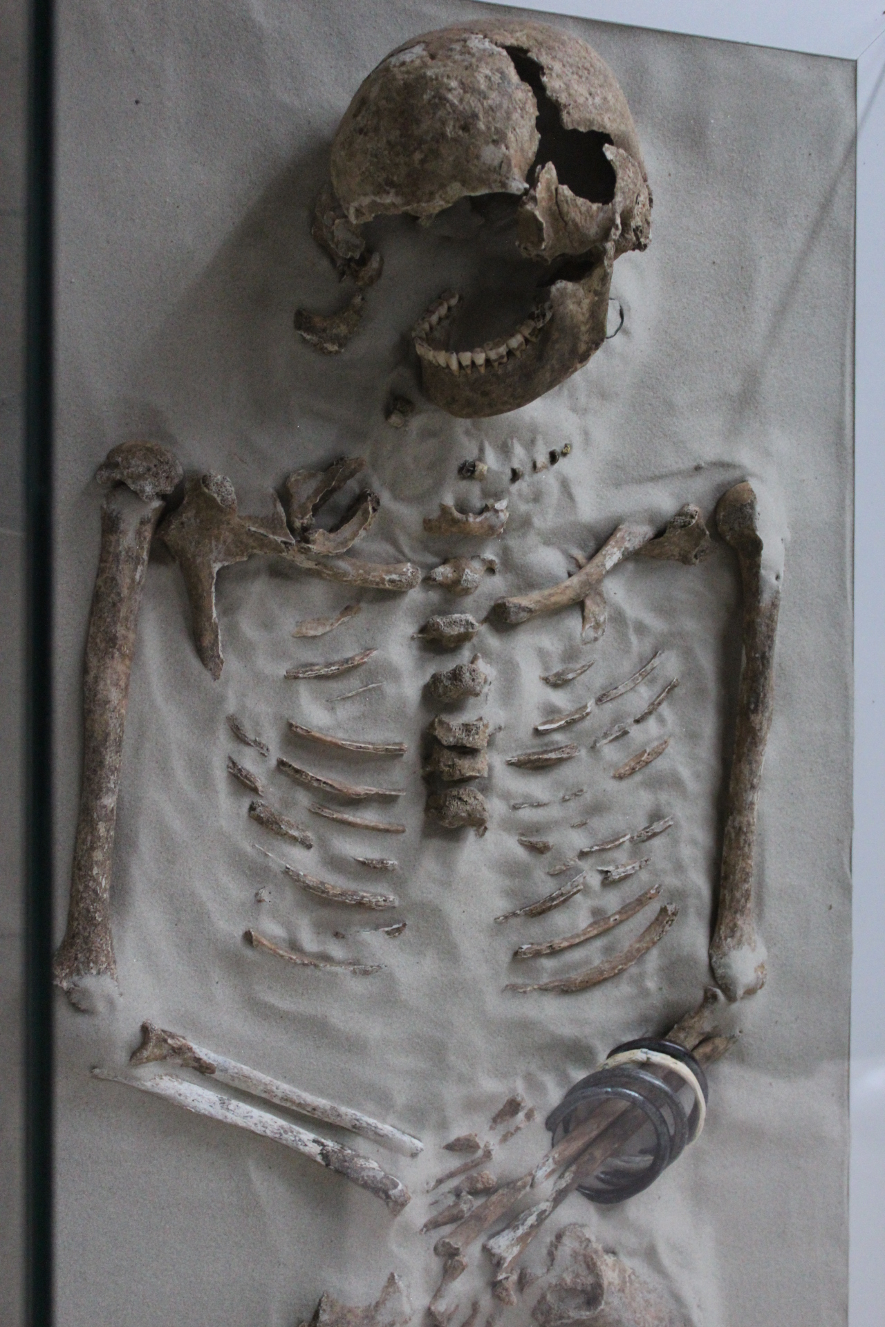 The sceleton of an adult woman with jewerly, reconstruction of the tomb No. 22, 11th-12th century, Pecenjevce, locality Tapan. Srpski (latinica): Skelet odrasle žene sa nakitom, rekonstrukcija groba br. 22, XI-XII vek, Pečenjevce, lokalitet Tapan.